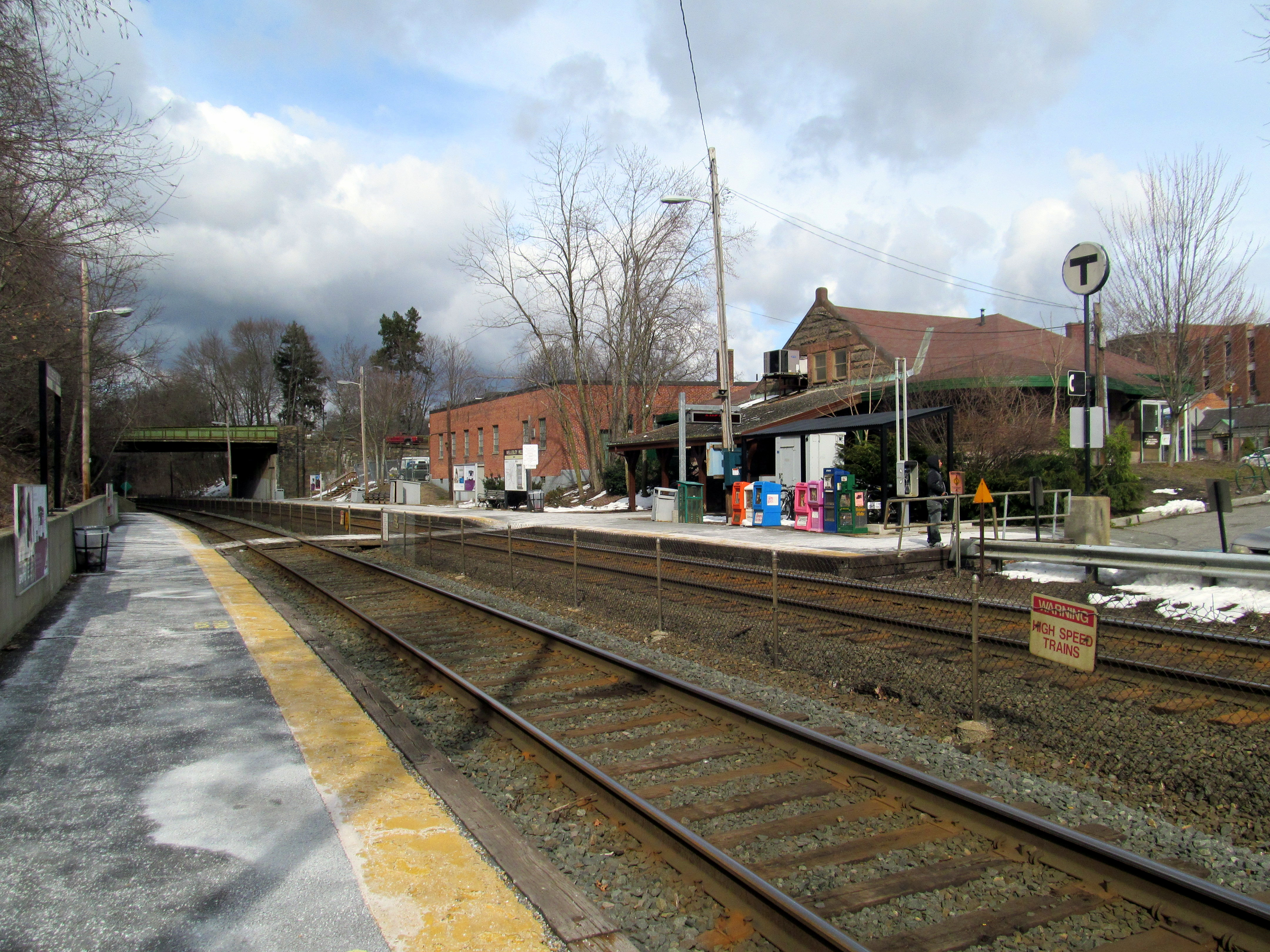 Wellesley Hills station in March 2013